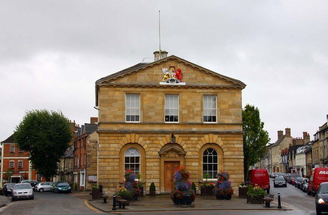 Woodstock Town Hall